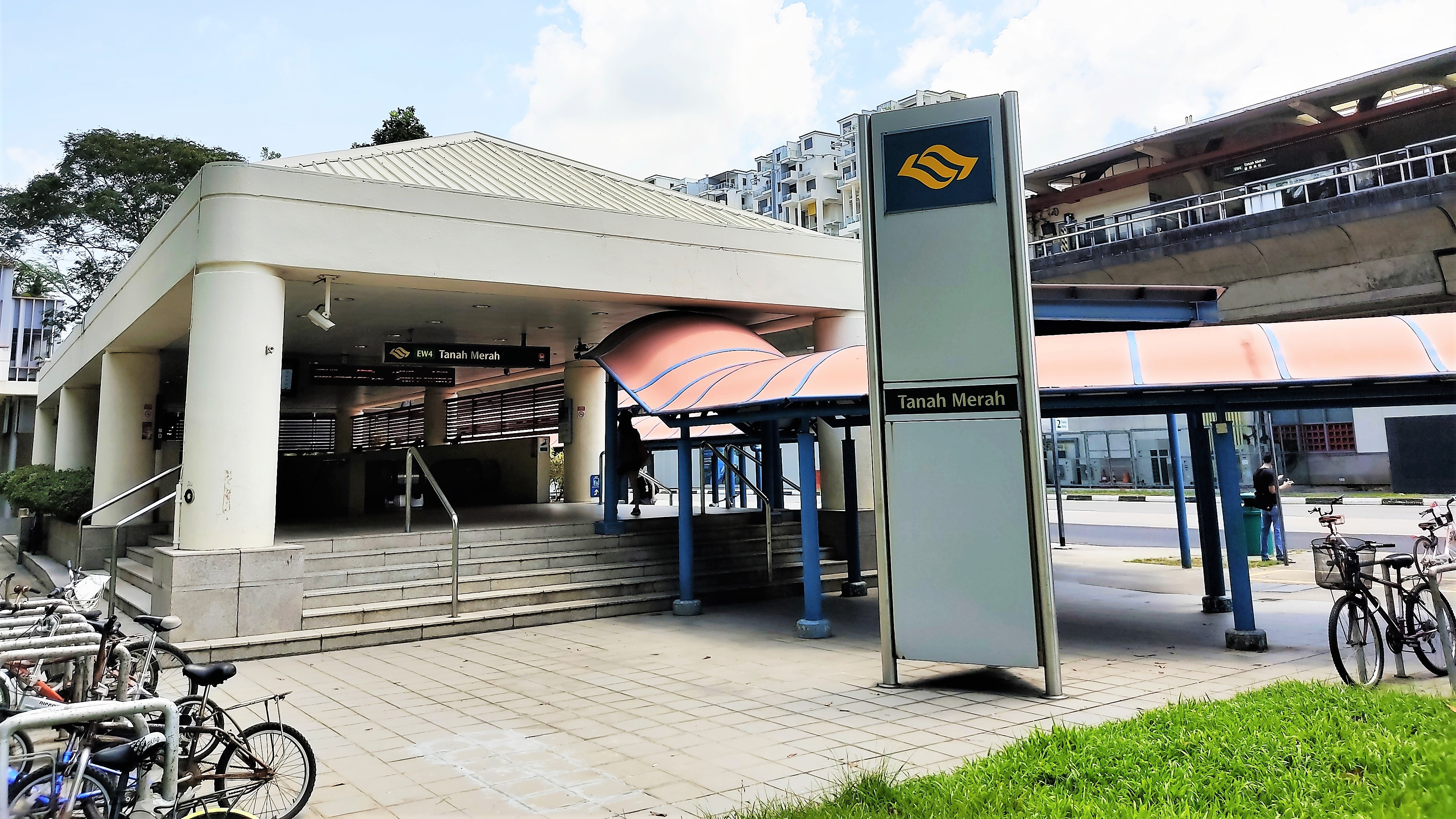 EW4 Tanah Merah Exit A